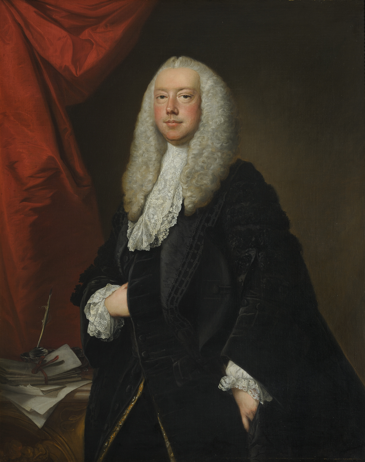 Charles Yorke (1722-1770), subsequently Lord Chancellor